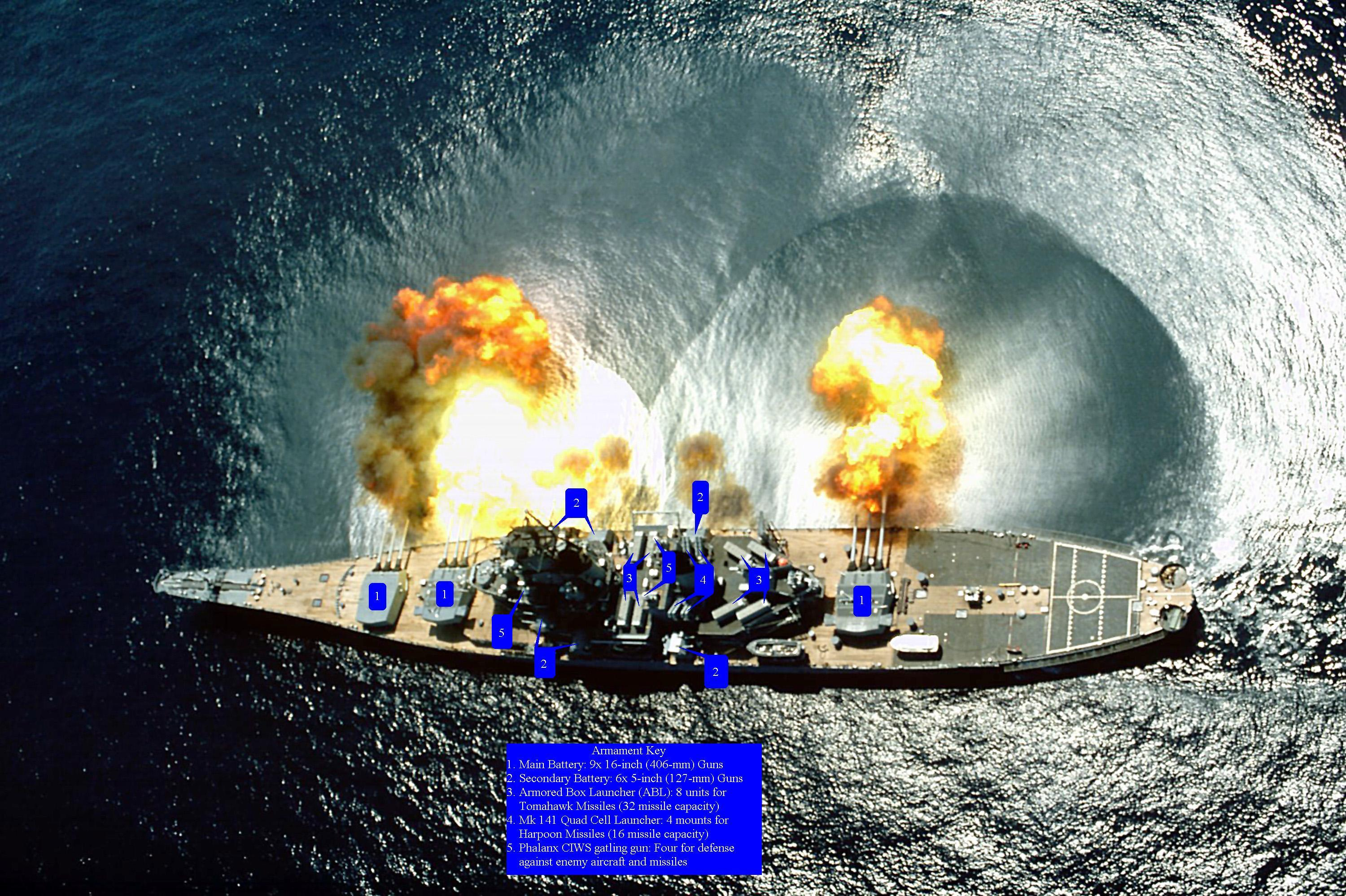 A color key of the 5 primary weapon systems found on an Iowa class battleship. This is a rough draft version.